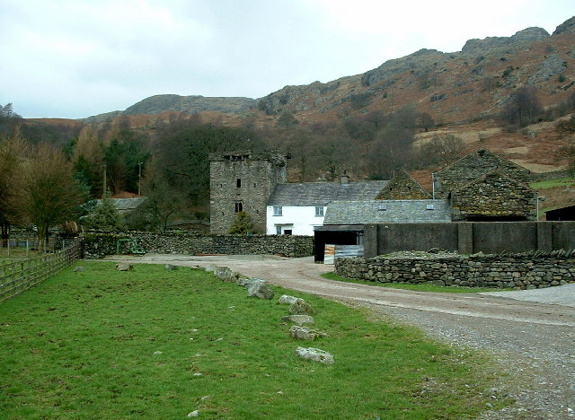 Kentmere Hall. A 14th century tunnel-vaulted pele tower with five-foot thick walls. The turrets, one of the original windows and the spiral staircase remain. The tower was extended now a farmhouse.